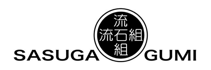 Sasugagumi logo